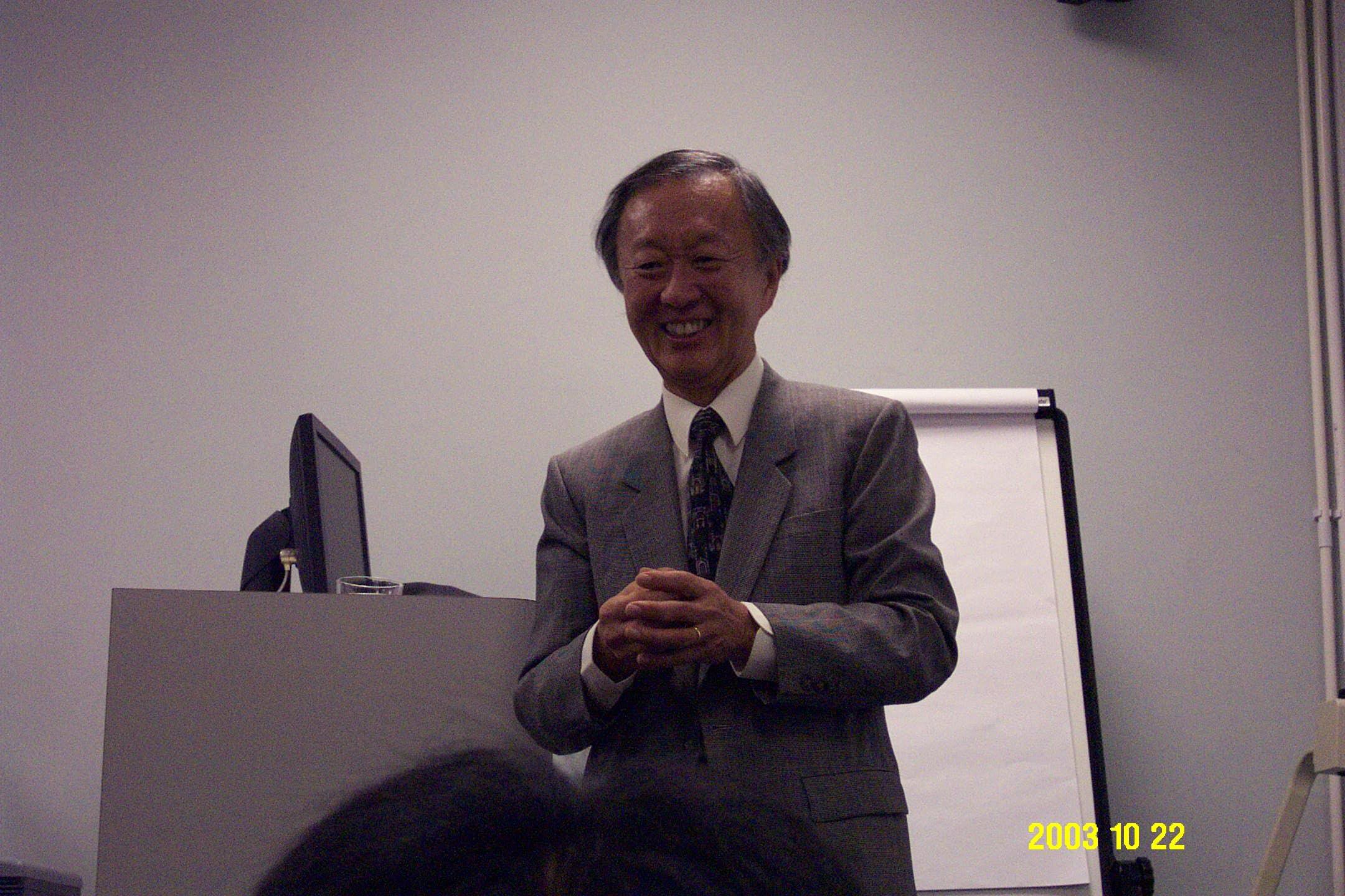 Charles K. Kao in lecture